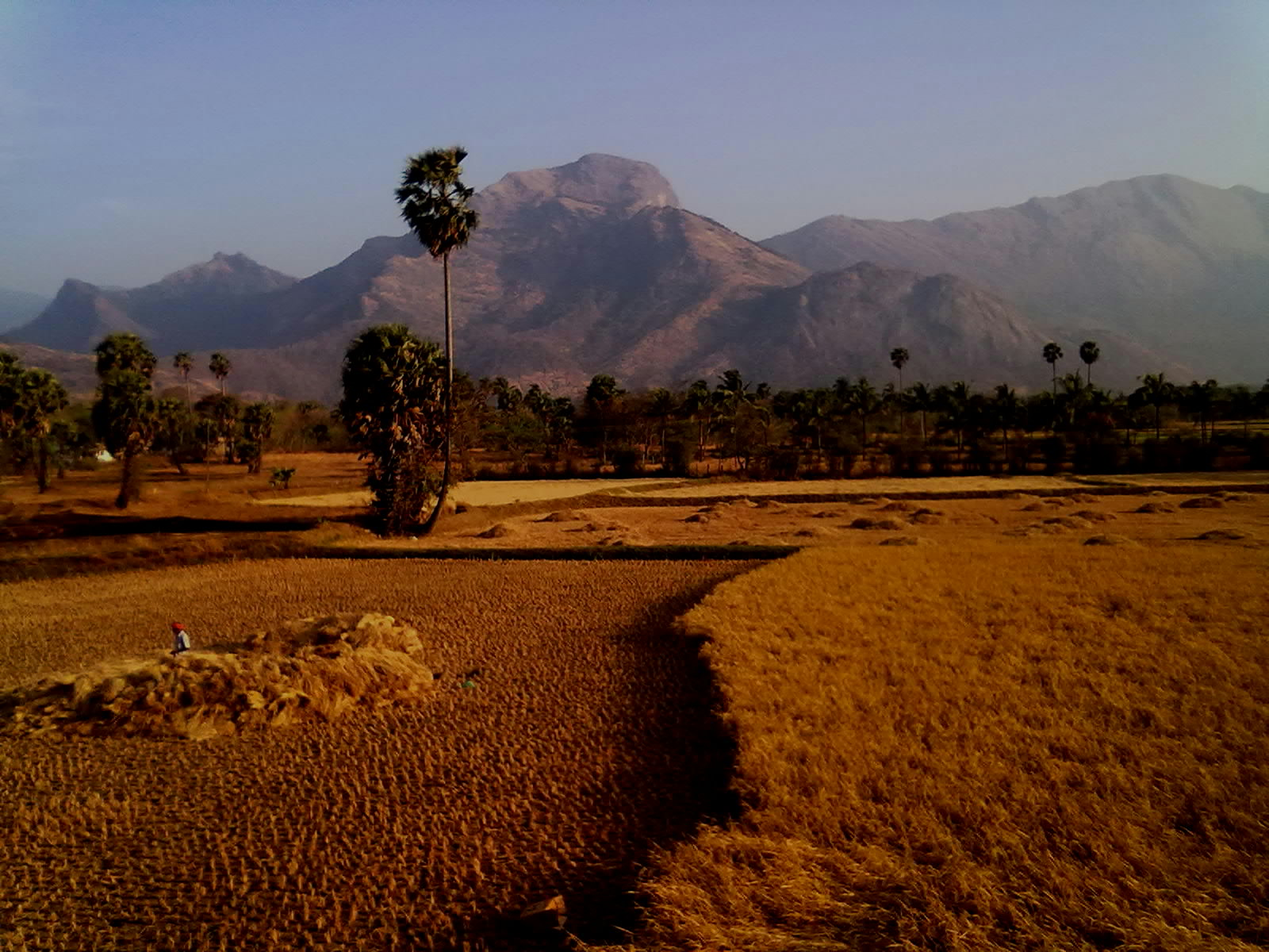 This photo is taken from Kanjikode, palakkad. during harevesting of rice